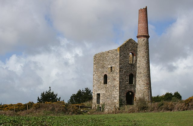 Baronet's Engine House, Pennance Consols. A classic Cornish Engine House. Pennance Consols mine was previously known as Wheal Amelia and mined tin and copper on the southern slope of Carn Marth.